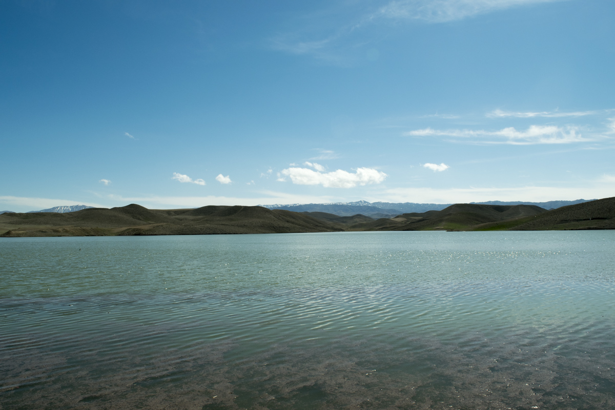 View from Fariman's Dam, Khorasan Razavi, Iran